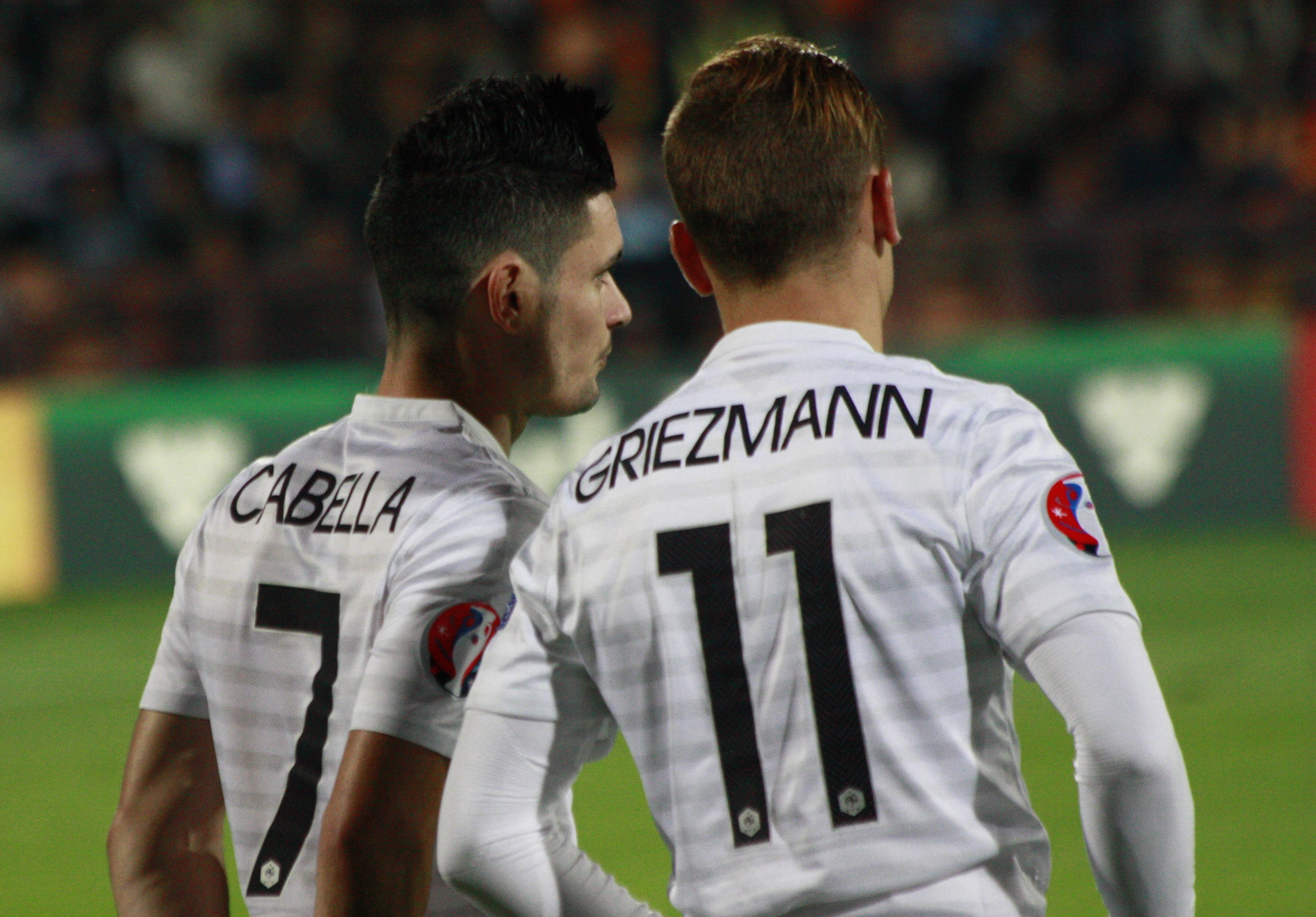 Rémy Cabella and Antoine Griezmann during a friendly match against Armenia on 14 October 2014.